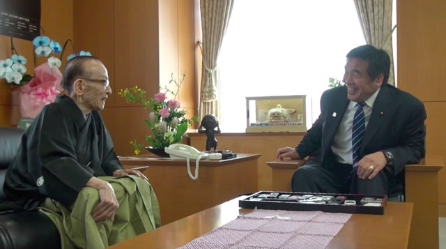 Utamaru Katsura, President of the Rakugo Art Association, talked with Hiroshi Hase, Minister of Education, Culture, Sports, Science and Technology, at the Central Government Building No.7 in Chiyoda Ward, Tōkyō Metropolis on May 31, 2016.